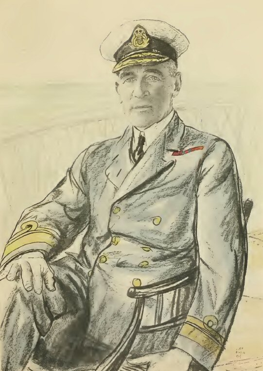 Sketch of Commodore Reginald Tyrwhitt (1870-1951) by Francis Dodd (1874-1949)